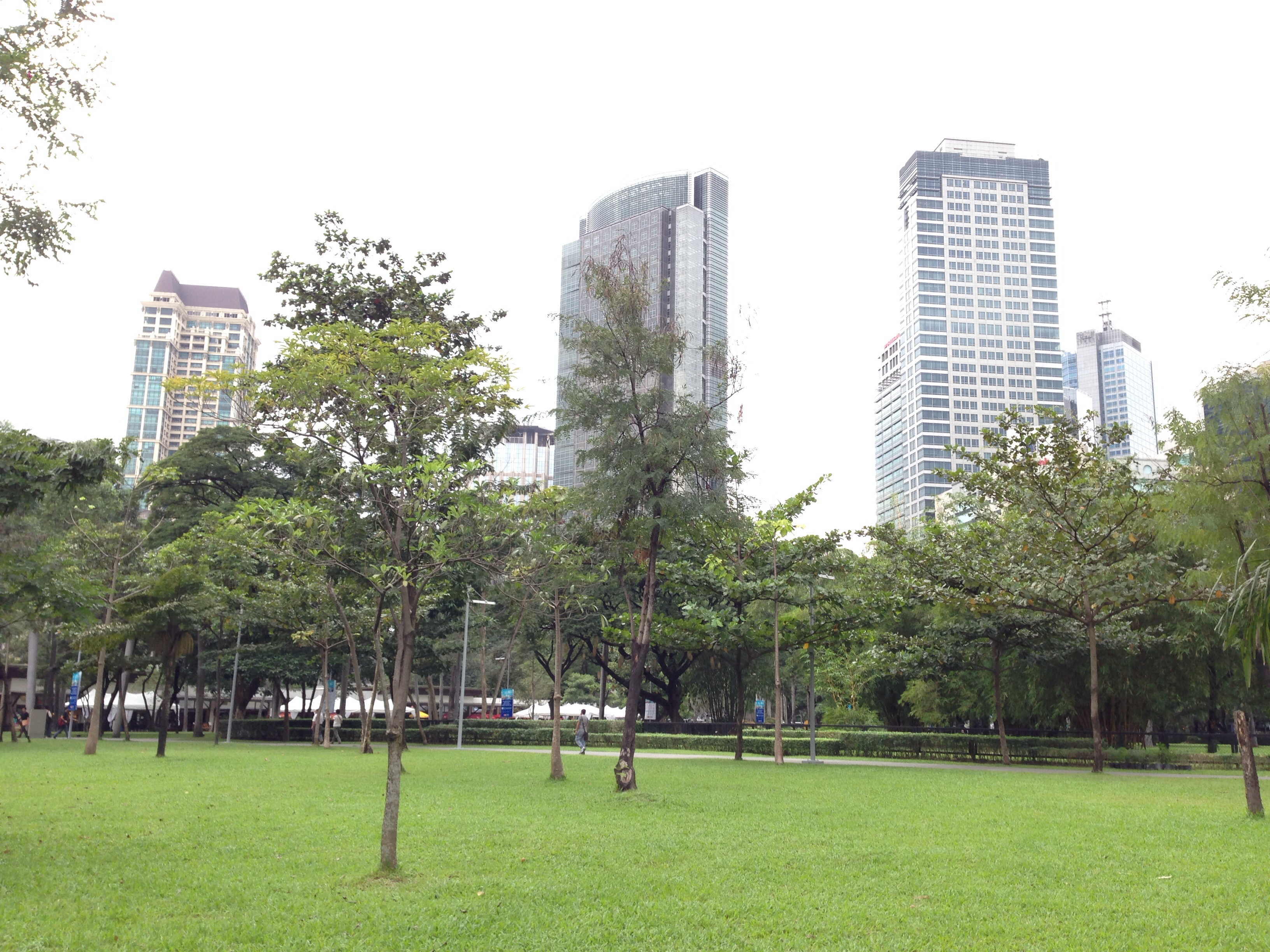 Ayala Triangle Gardens, Makati CBD, Manila, Philippines